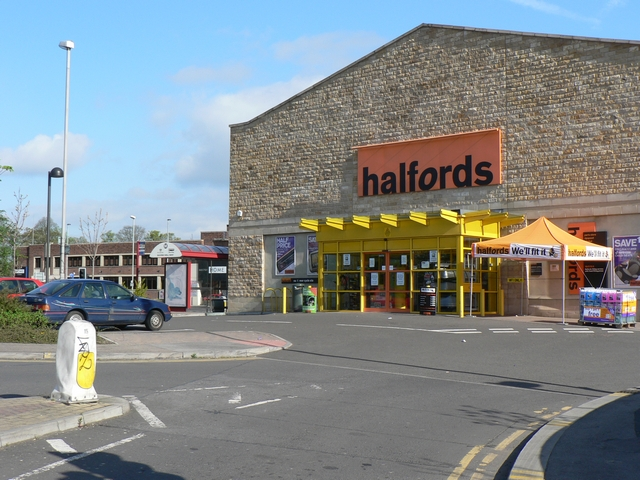 Halfords store, Savins Mill Way, Kirkstall. The Halfords store has been built within the last 3 years, as part of the development of the old Star and Garter pub, (later Bar Celona), on Bridge Road. For a view of the old buildings from Bridge Road, see Leodis